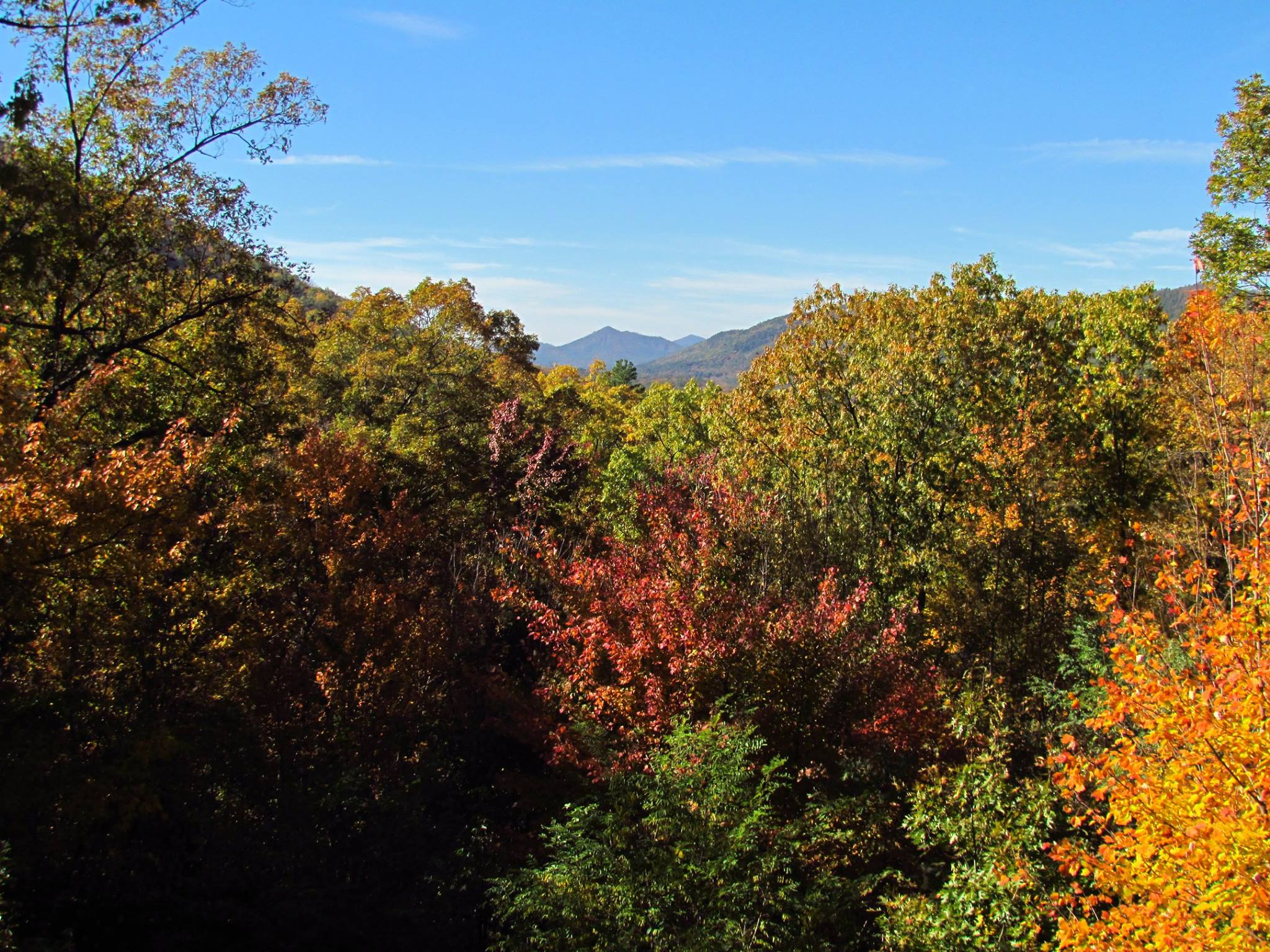 Fall colors in the Ouachita Mountains